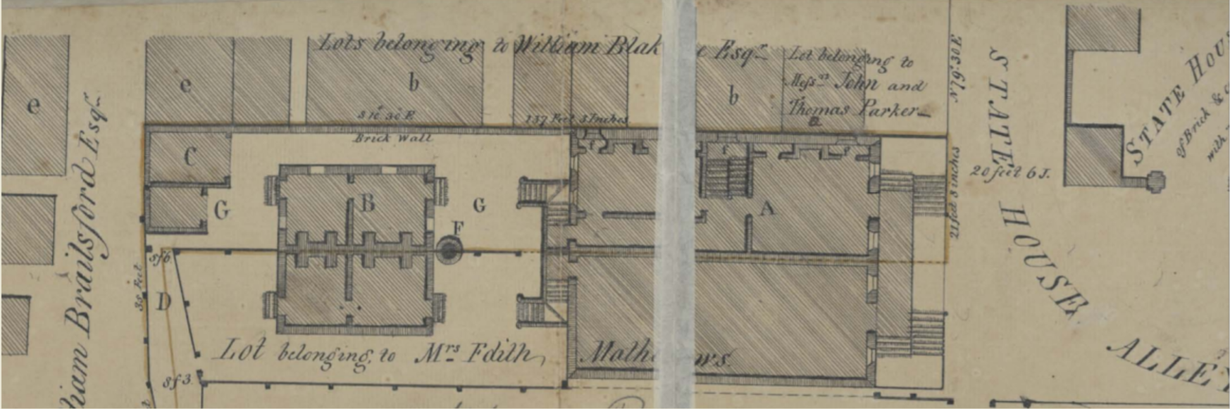 Surveyor Purcell drew a plat of buildings on Courthouse Square (then known as Statehouse Square) in 1788